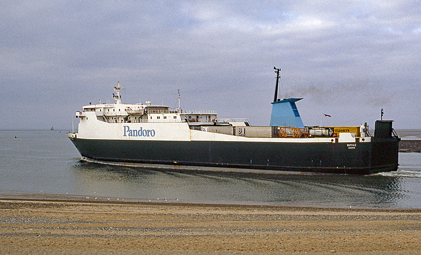 Pandoro ferry Buffalo departing Fleetwood for Larne in 1986. Other names: European Leader, Stena Leader, Anna Marine. Information about Buffalo (ship) may be found at IMO 7361582.A ship can change name and flag state through time, but the IMO number remains the same through the hull's entire lifetime. As a result, it can be useful to identify a ship by using the IMO number. Scanned from a 35mm slide.